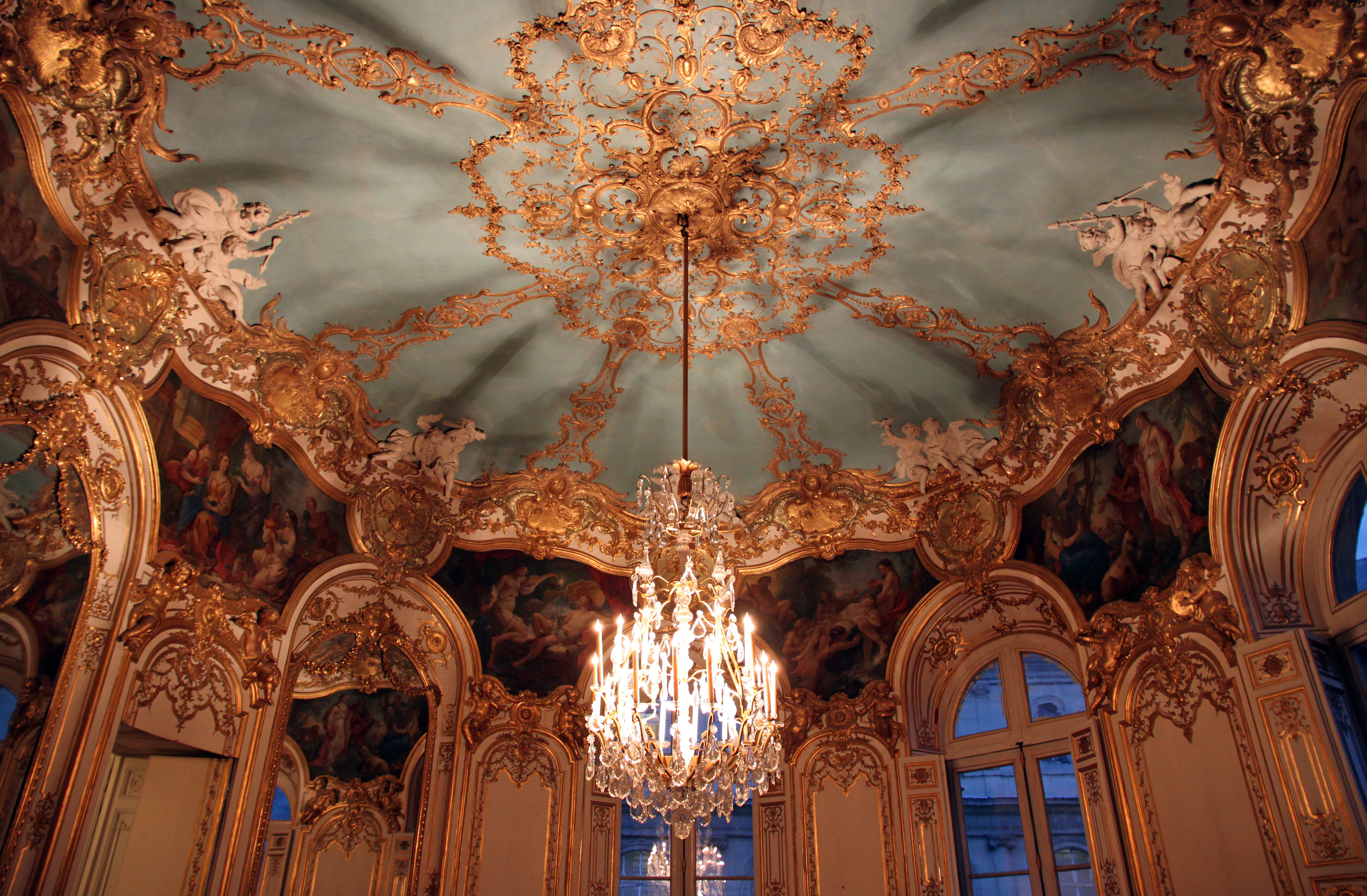 Interiors of the salon de la princesse, in the Hôtel de Soubise, Paris.